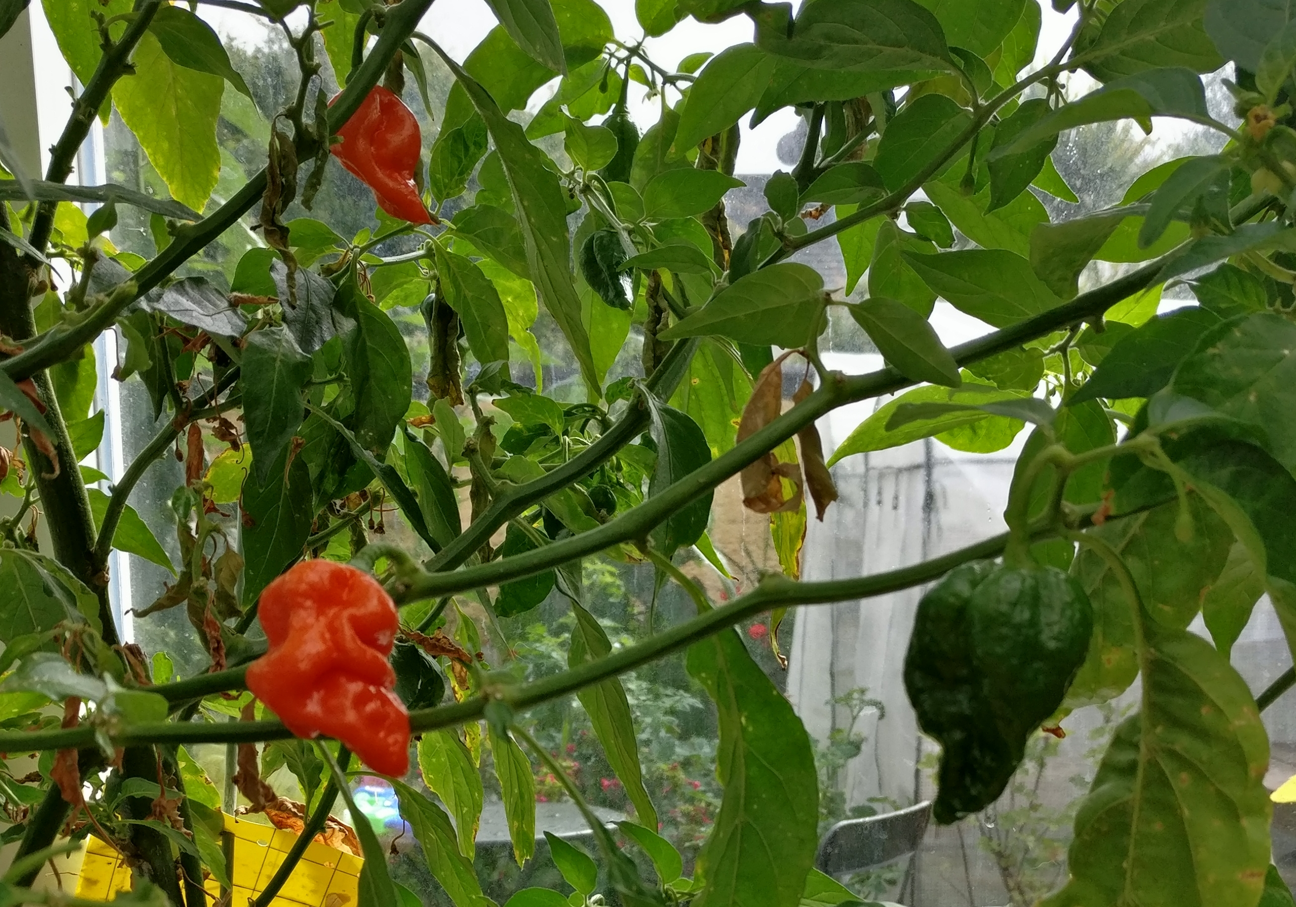 Close up of a Komodo Dragon Chili plant showing 2 ripe and 1 unripe fruit.